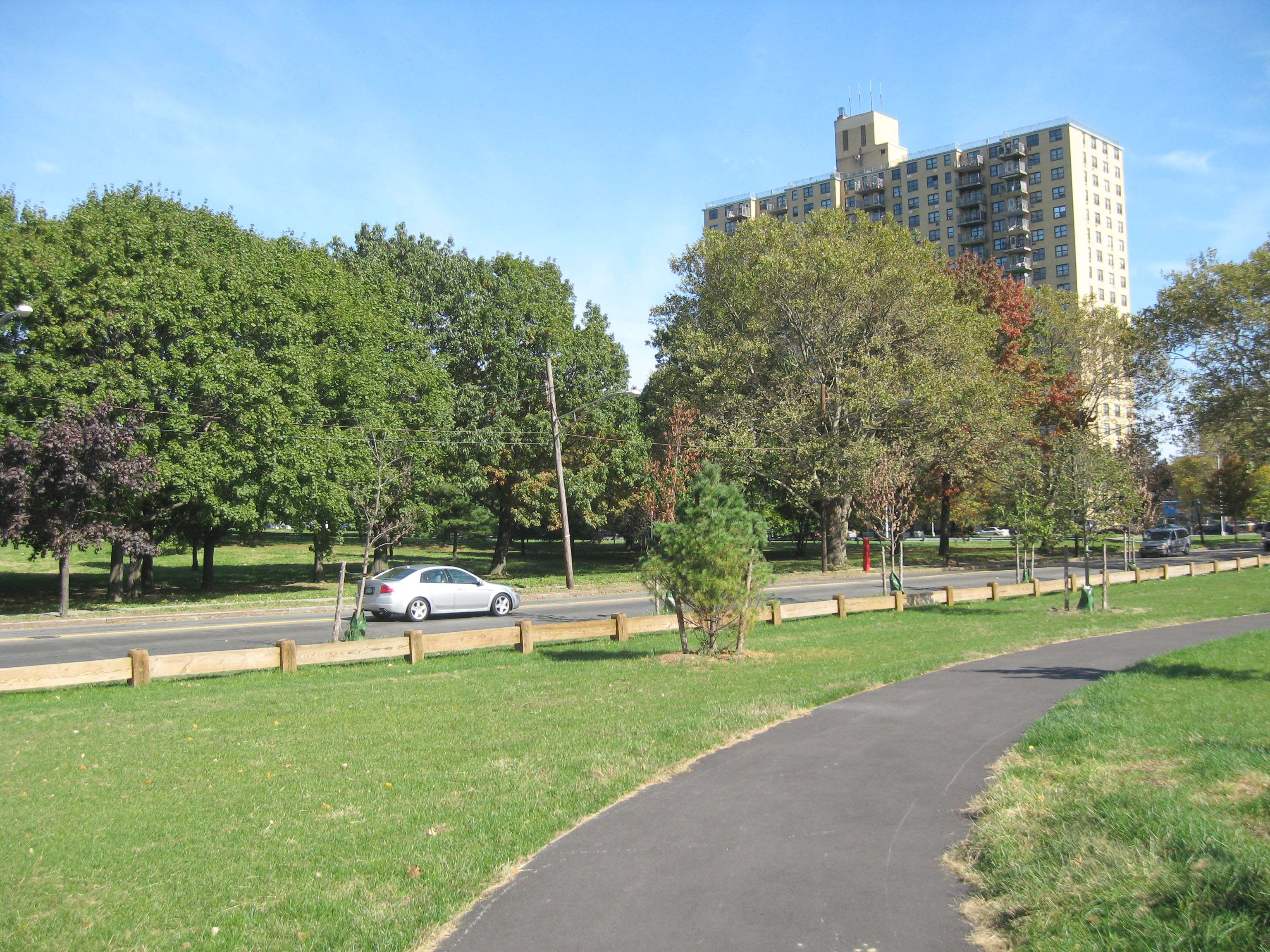 Looking northeast at Story Avenue running through Soundview Park, The Bronx on a sunny late morning.